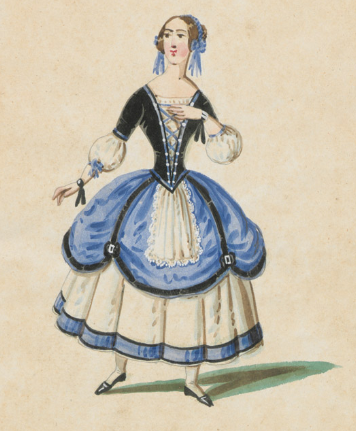 Costume for Fiorina, a character in Nicola De Giosa's opera Don Checco. The costume is from an 1853 production at the Teatro del Fondo in Naples.